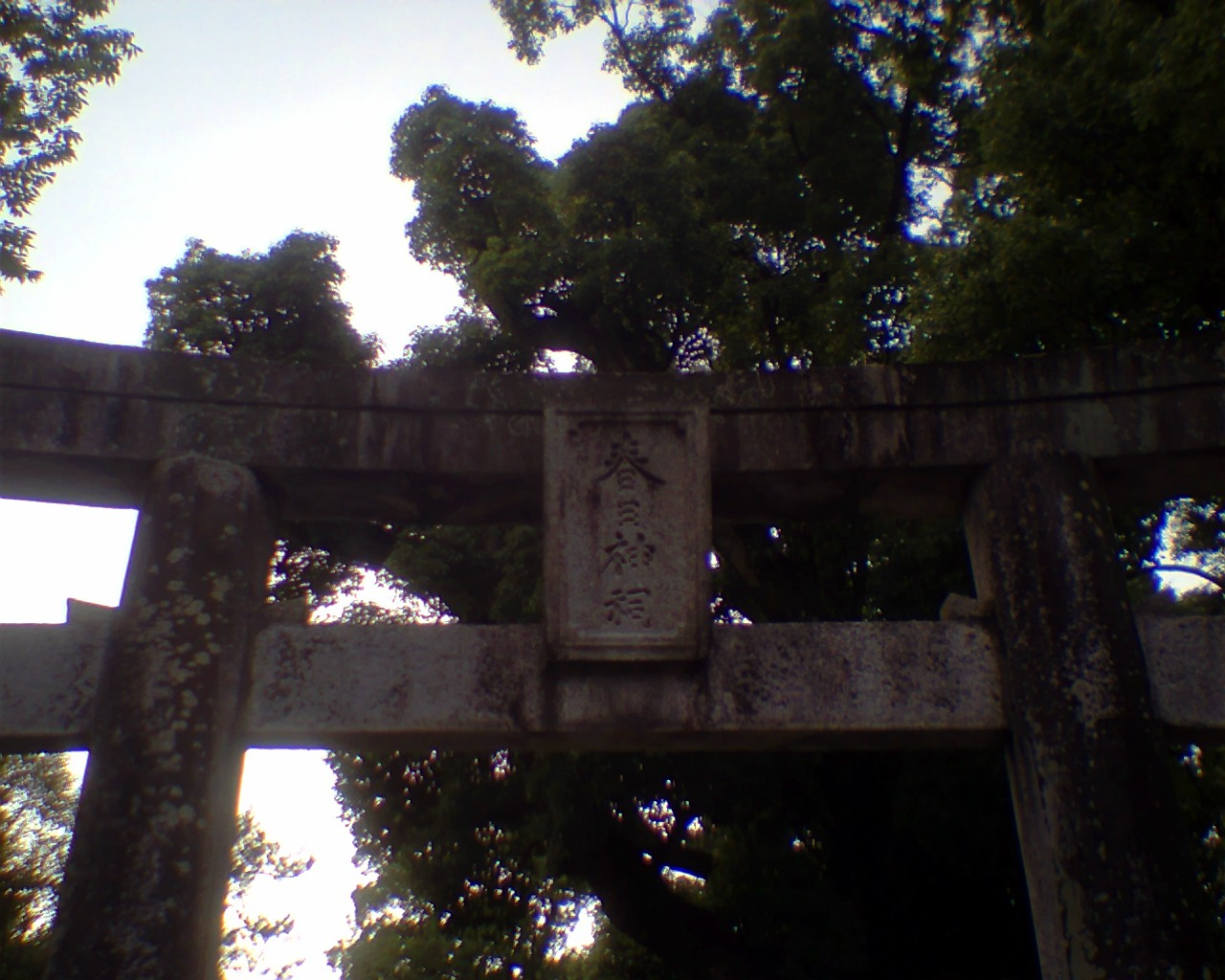 This photograph is a Torii on a Shrine(Jinja) named 'Kasuga shrine' (or 'Kasuga jinja' , ja : '春日神社'), in the Kasuga city, Fukuoka prefecture, Japan.Tradition says that this shrine originated with onshrine in Amenokoyaneno-mikoto by the Prince Nakanooe (Emperor Tenchi) long ago, and its famous for the new year's event 'Kasuga no Mukooshi'(ja : '春日の婿押し').